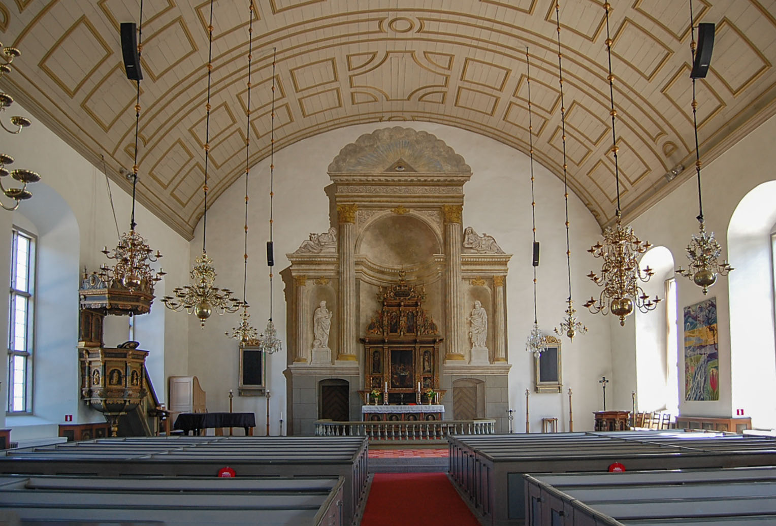 church of Mjällby, county of Sölvesborg, Sweden. view of interior parts from the entrance.